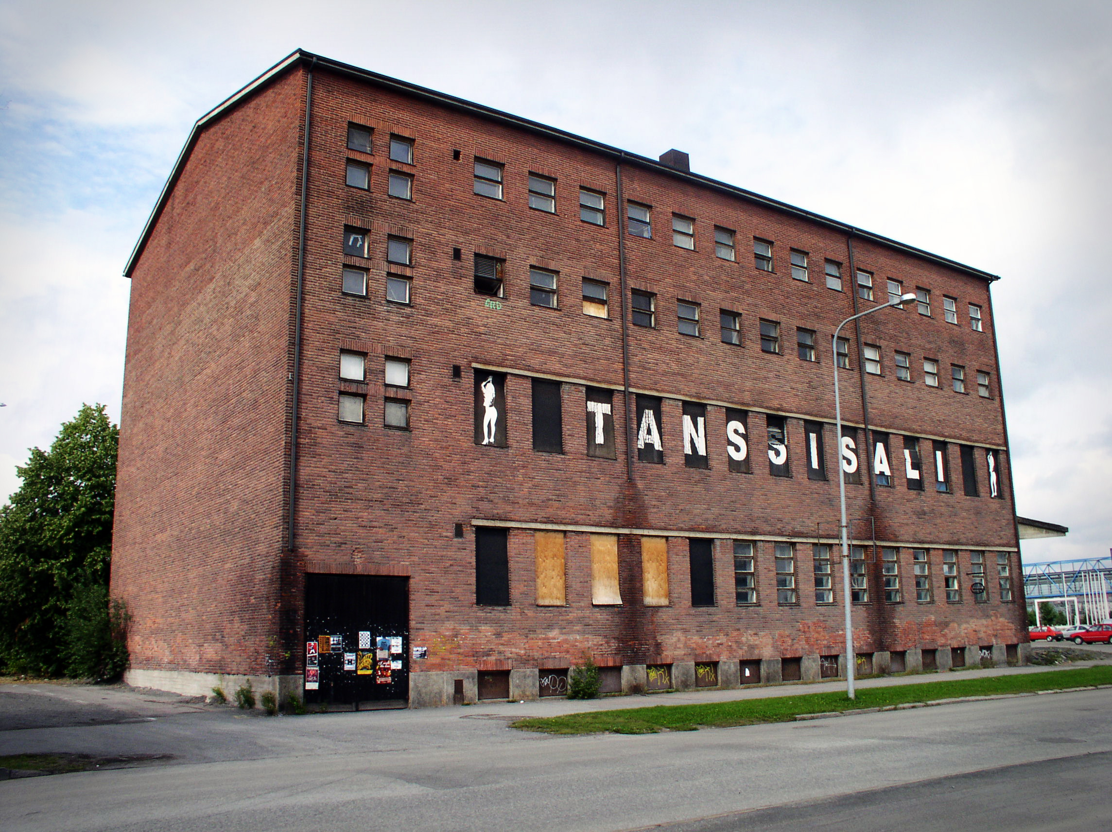 Rockclub Lutakko in Jyväskylä, Finland. Photo taken before big decoration.